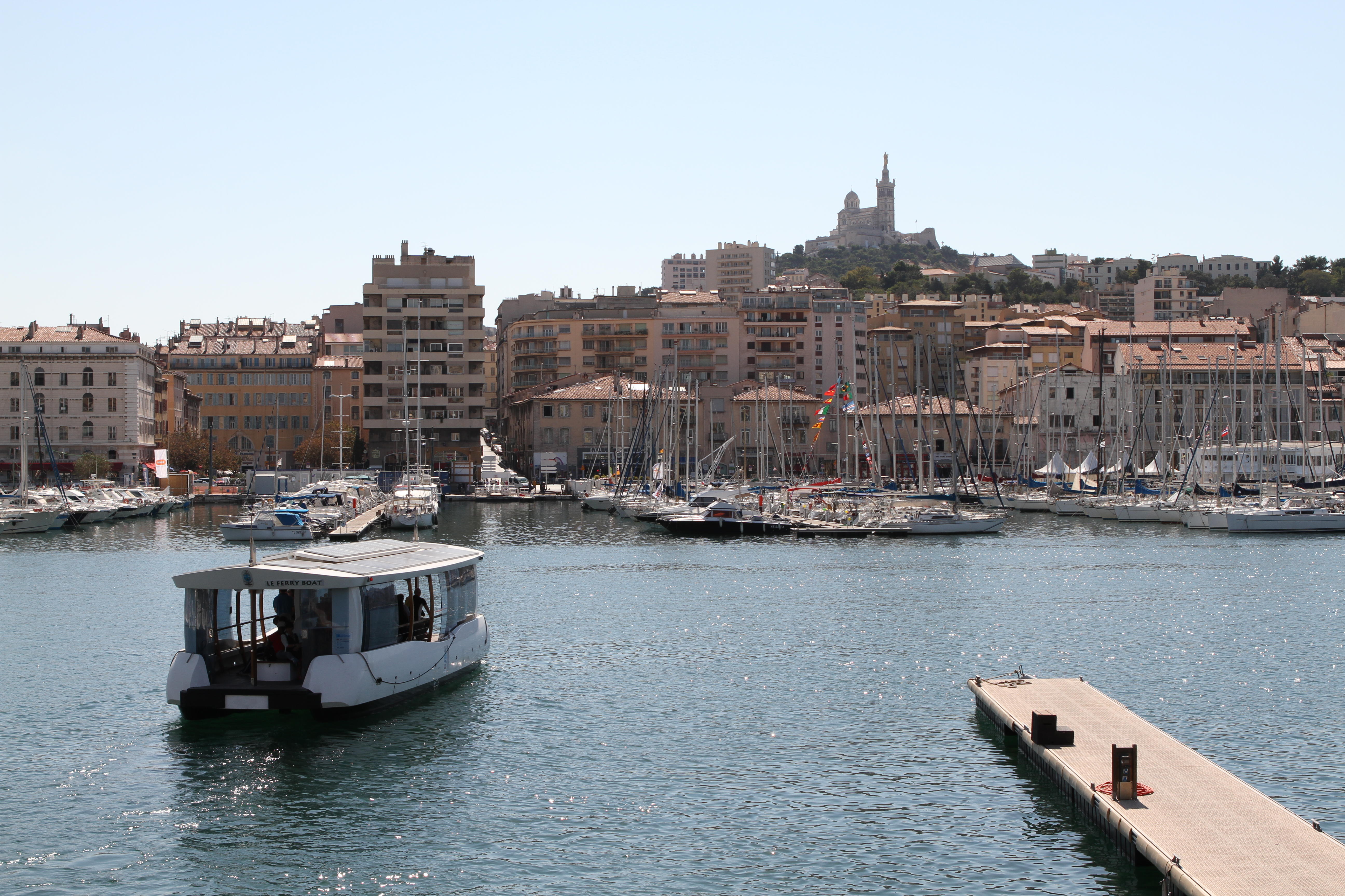 A ferry boat in the Old Port of Marseille (Bouches-du-Rhône, France)